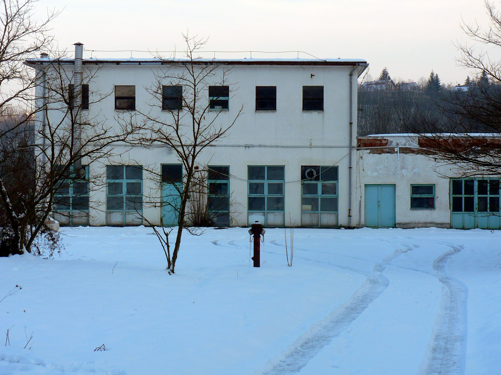 A Jóreménység-altáró egykori fürdőépülete 2010-ben